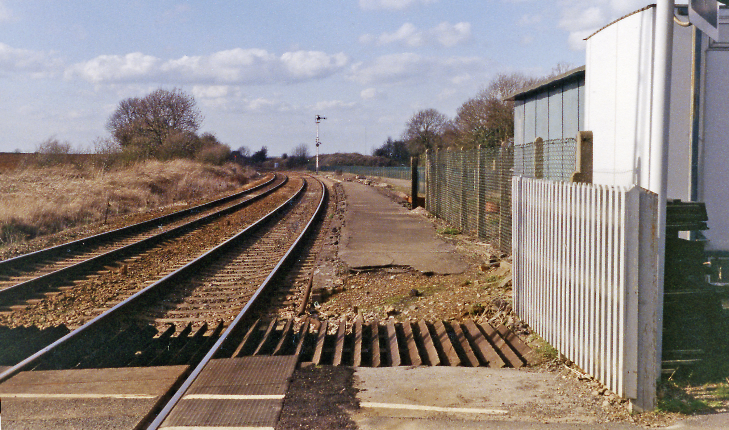 Site of Ashwell station, 1994 View NW, towards Saxby, Melton Mowbray - Leicester/Nottingham: ex-Midland Leicester - Peterborough main line. Ashwell station was closed from 6/6/66, but the line remains active.